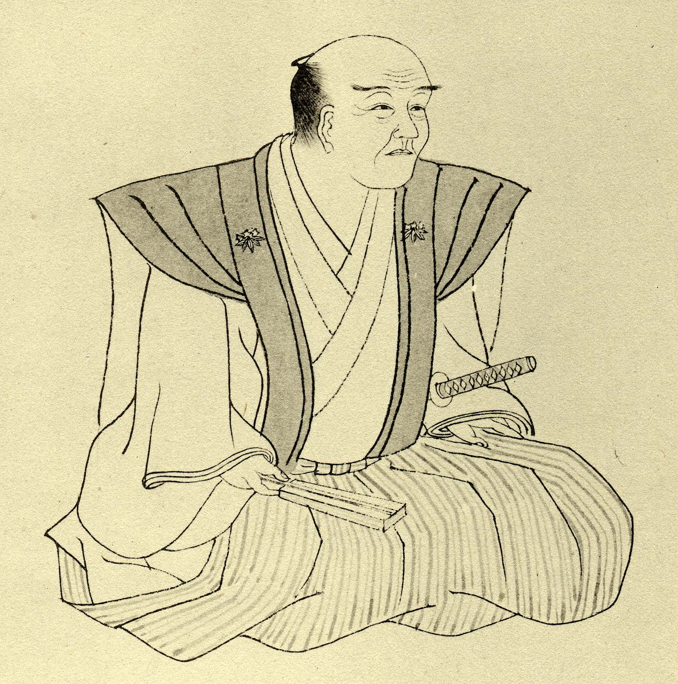 Ishikawa Masamochi(石川雅望) was a japanese writer and poet in late Edo period.